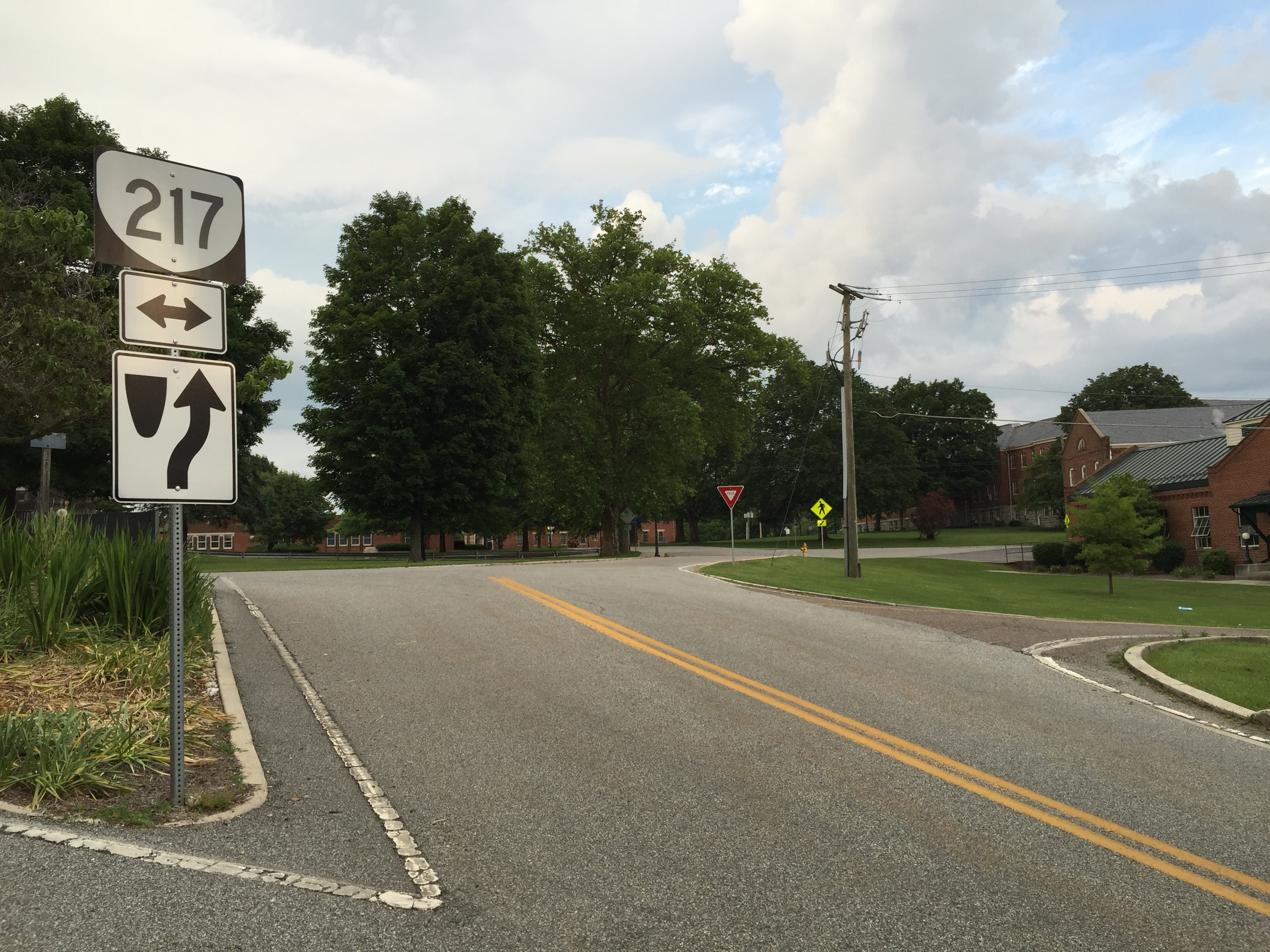 View east along Virginia State Route 217 (Morrison Drive) at Bagley Circle, at the Southwestern Virginia Mental Health Institute in Marion, Smyth County, Virginia